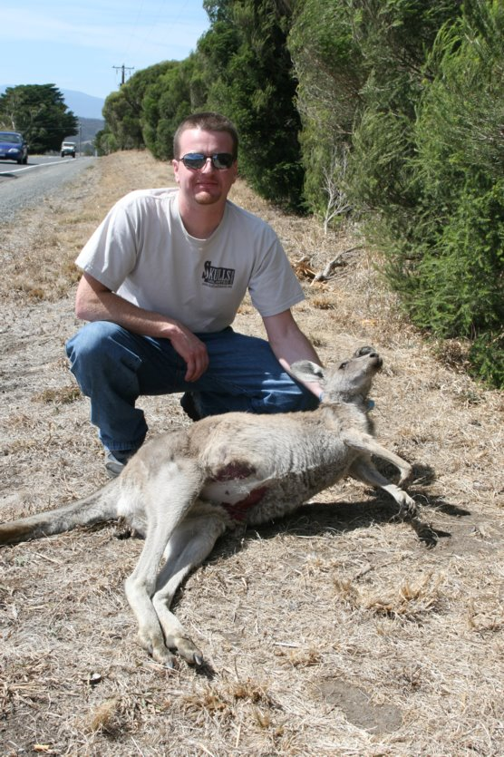 Roadkill Eastern Grey Kangaroo, Victoria, Australia.